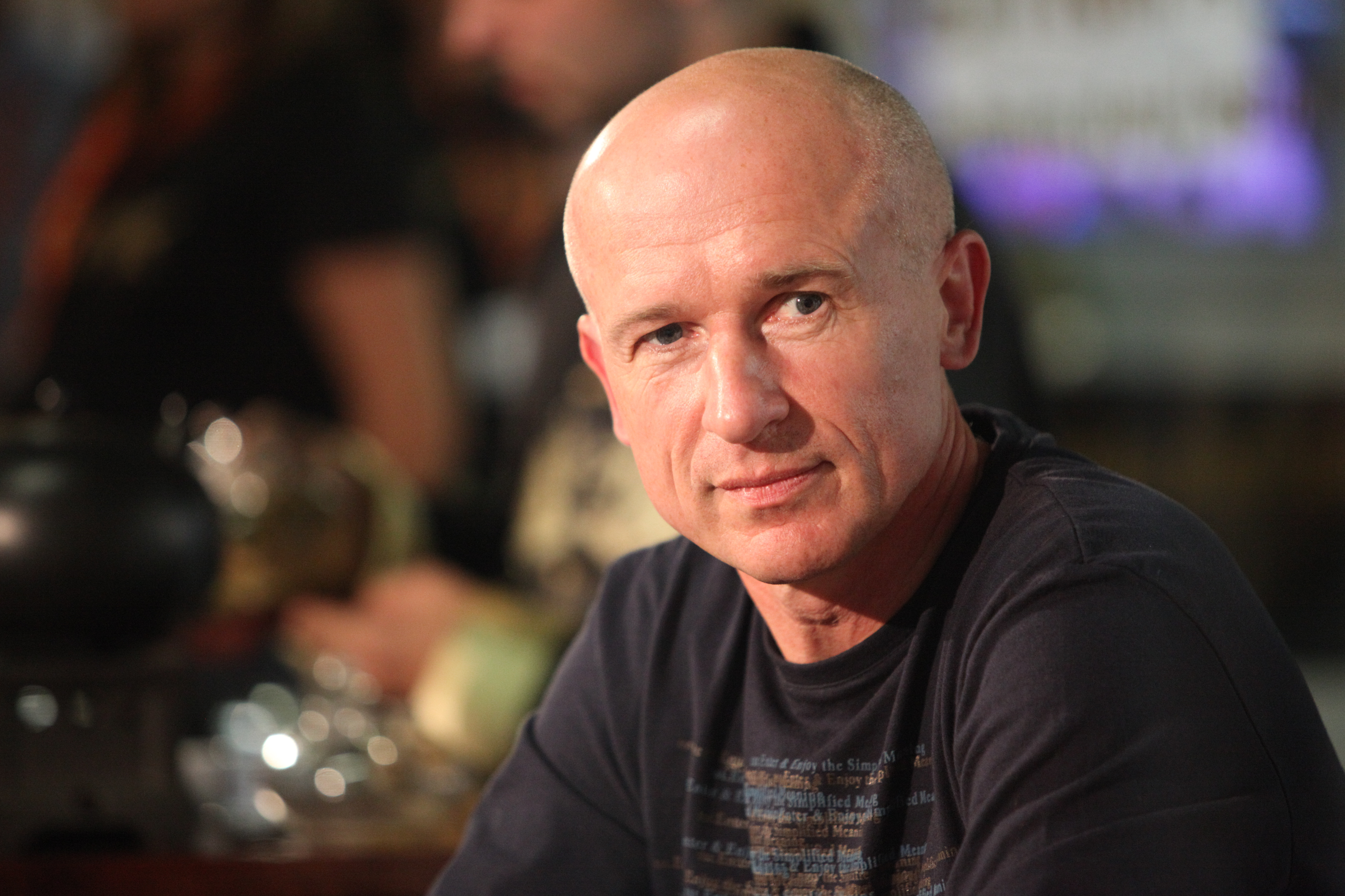 Czech film director Zdeněk Tyc at 44th Karlovy Vary International Film Festival